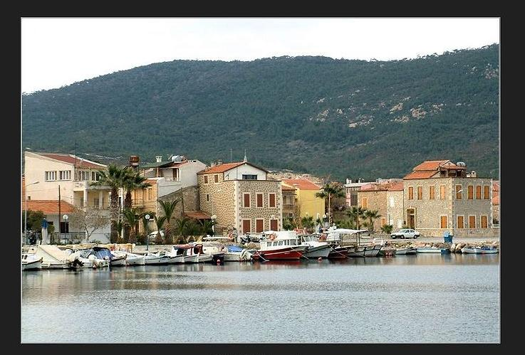 General view of the quay in Yenifoça, Turkey